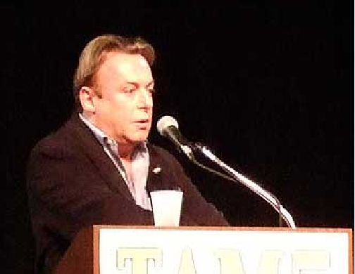 Christopher Hitchens speaking at The Amazing Meeting 5, Las Vegas